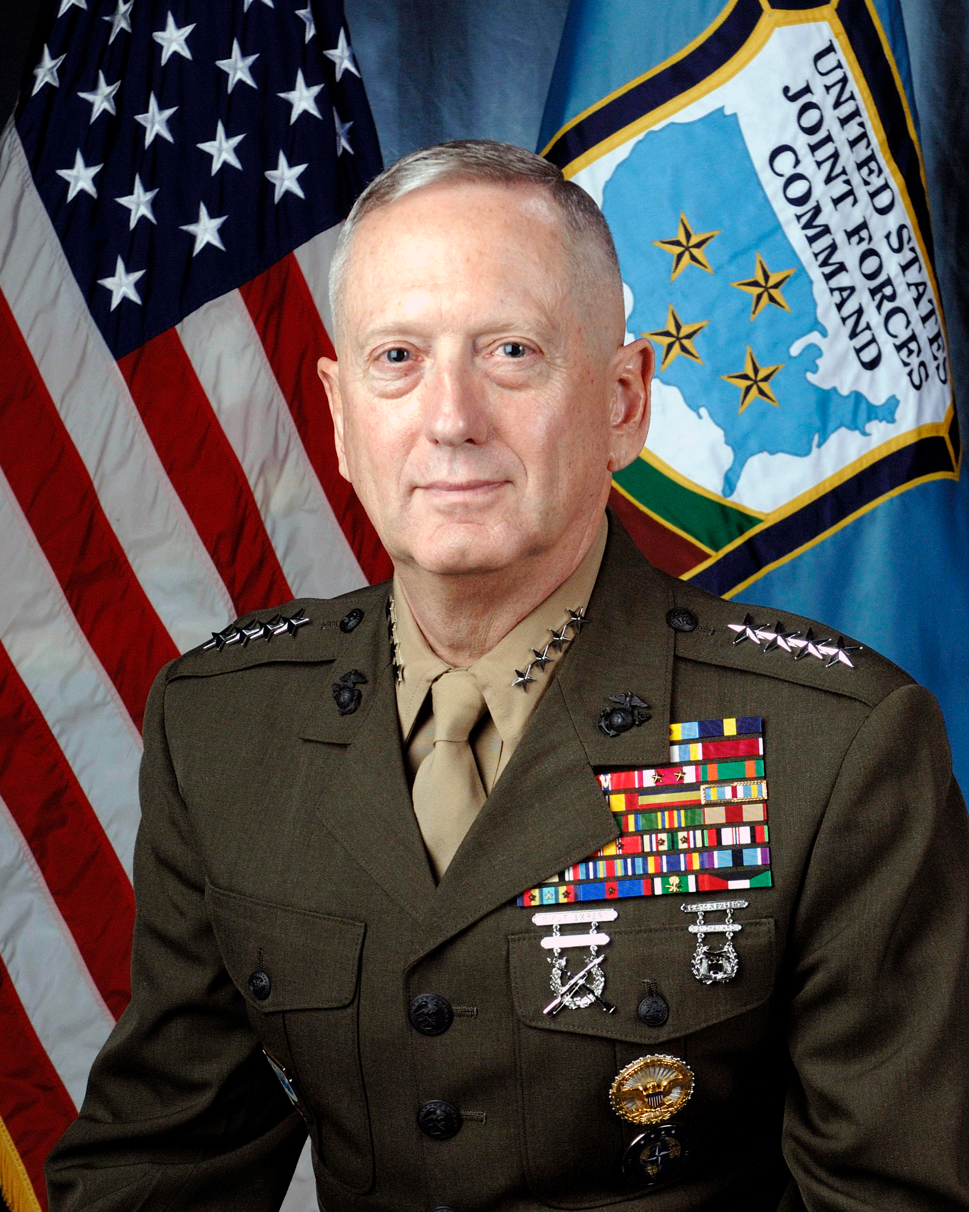 General James Mattis, USMC, Commander US Joint Forces Command and Supreme Allied Commander Transformation, NATO